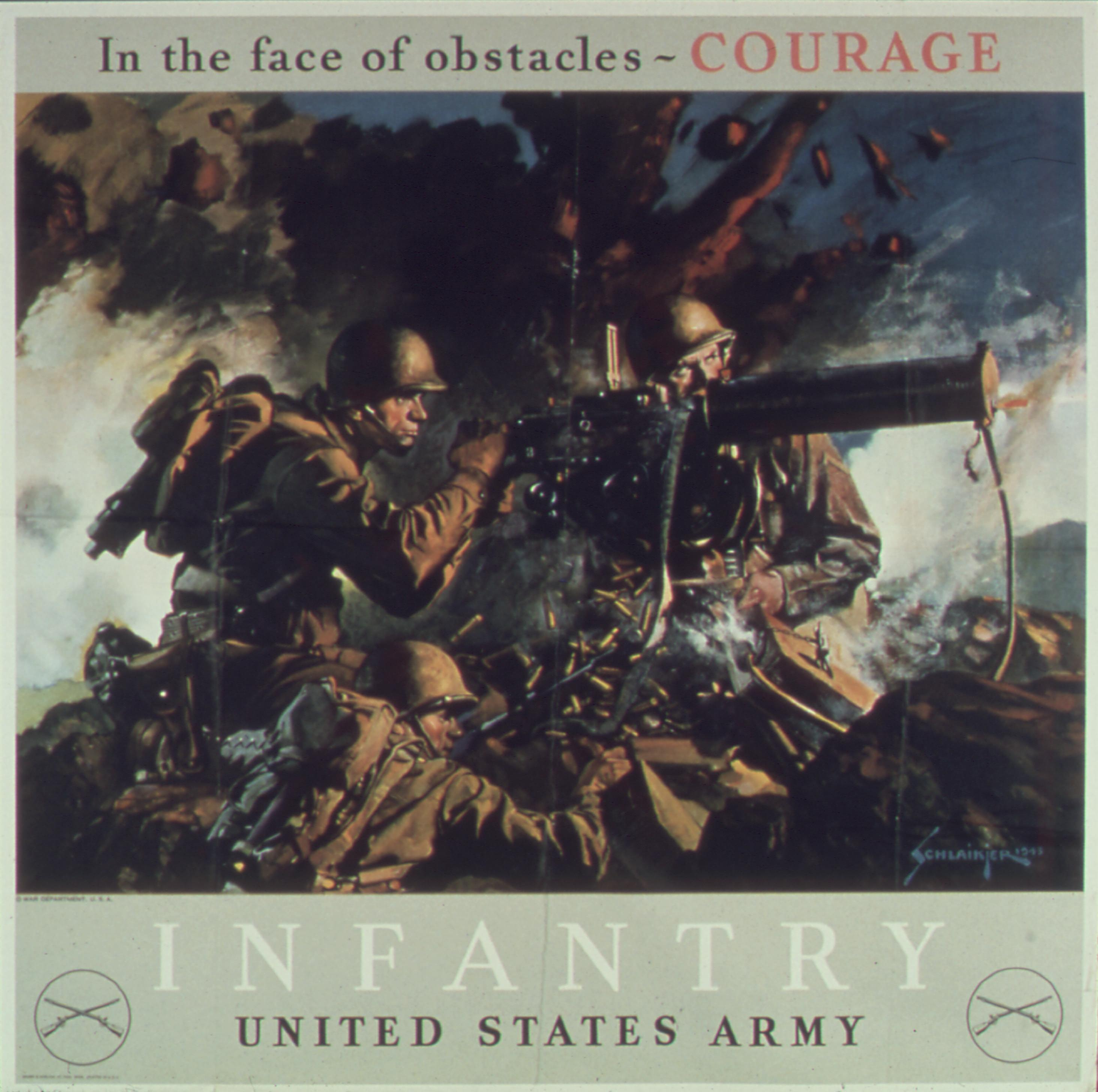 "In The Face Of Obstacles - Courage" US World War II propaganda poster for the US Infantry. Information here.